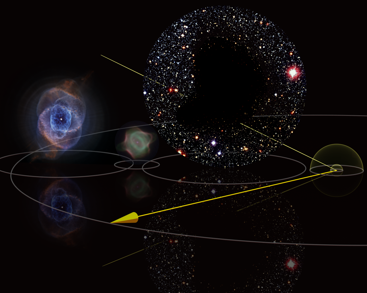 Comparison of sizes of objects with order of magnitude 1e15m: one light year radius circle with yellow Vernal Point arrow; Cat's Eye Nebula (NGC_6543) on left with Bok Globule Barnard 68 adjacent; Great January comet (Comet C/1910 A1)'s orbit shown as long extreme ellipse passing behind Barnard 68; light month shell (small yellow sphere) inside which a light week shell. All sizes to scale, but nebulae are artificially positioned for illustrative purposes only. No transparency version.